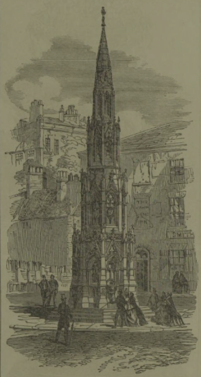 From the Illustrated London News, 25 August 1866